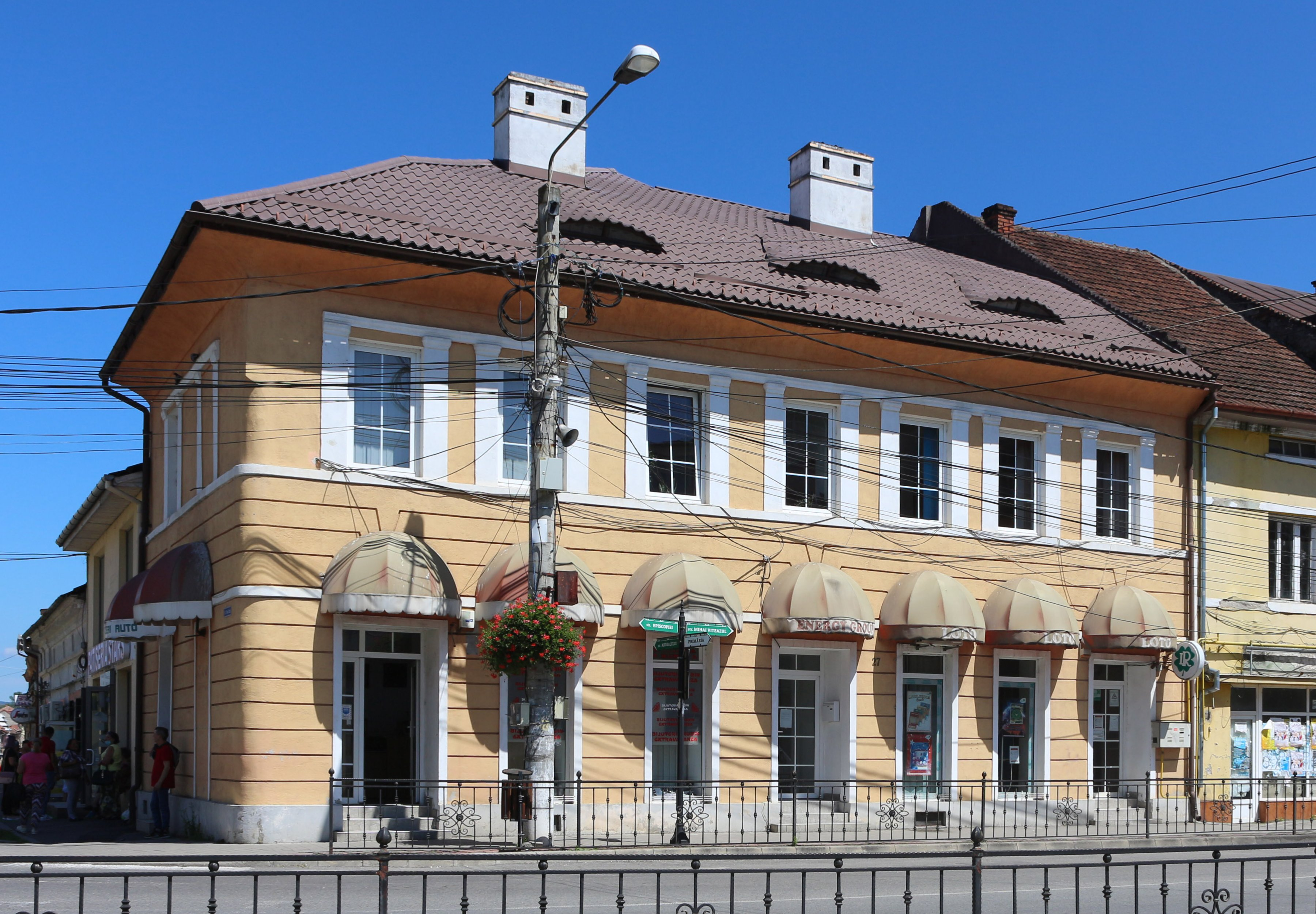 Ostoia House, Caransebeș, Mihai Viteazul St., no. 27, built 18th century.